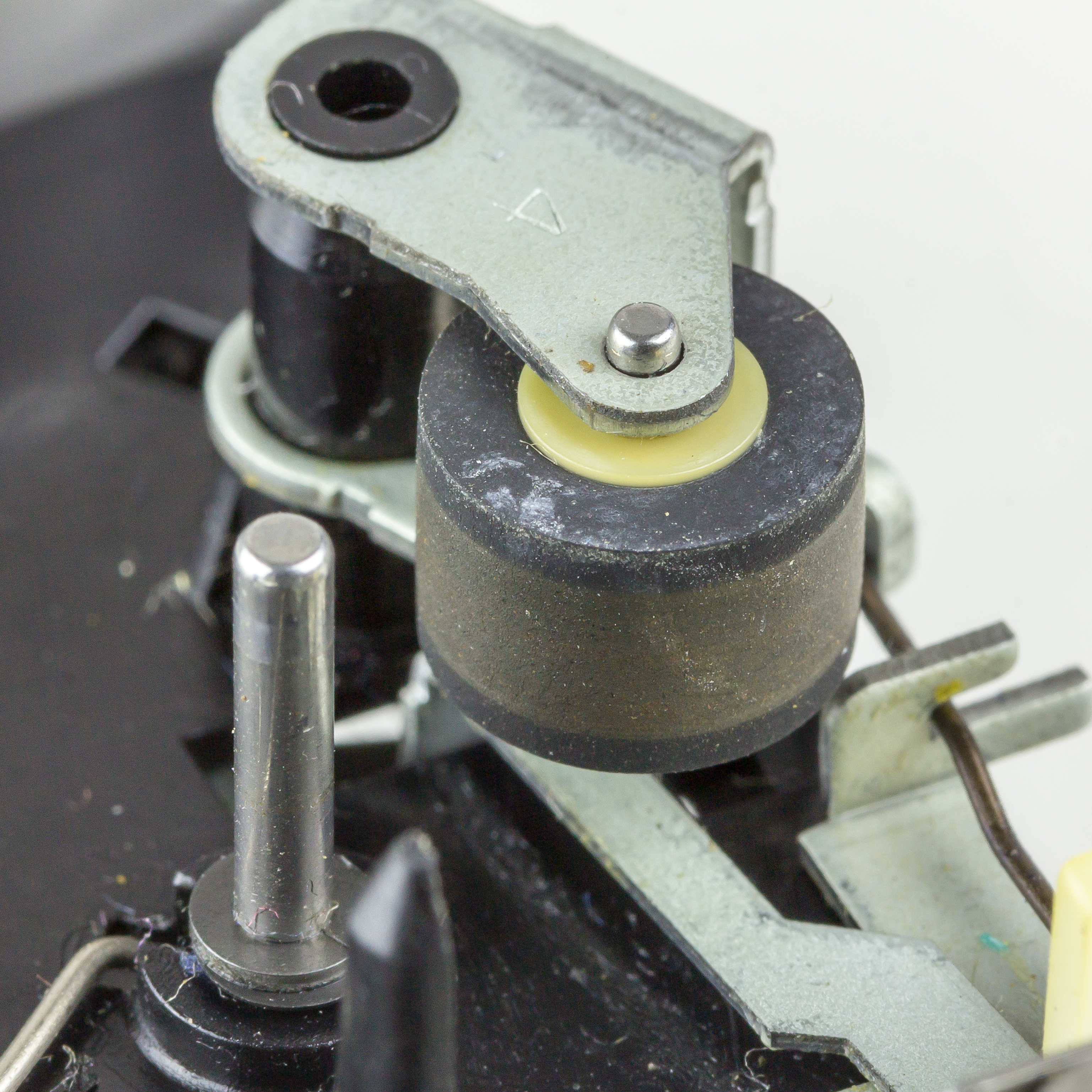 Siemens RC 826 - capstan and pinch roller